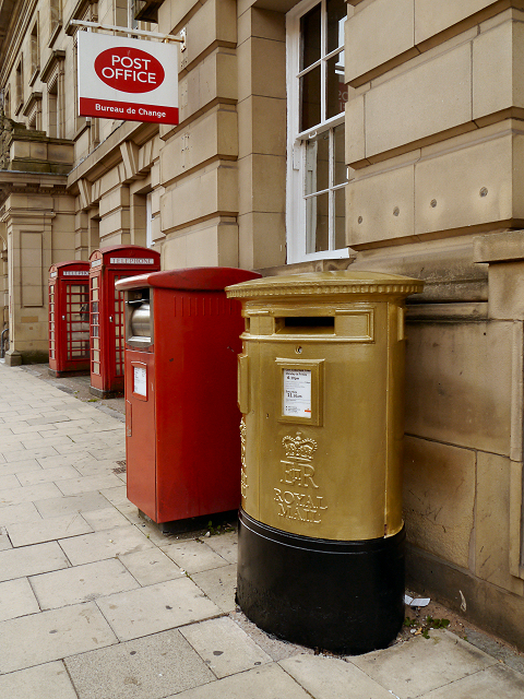 Gold post box in Deansgate, Bolton, Greater Manchester, honouring Jason Kenny. Royal Mail celebrated every gold medal won by a British athlete during the London 2012 Olympic Games by repainting one of their iconic red pillar boxes gold for each gold medal winning Olympian.